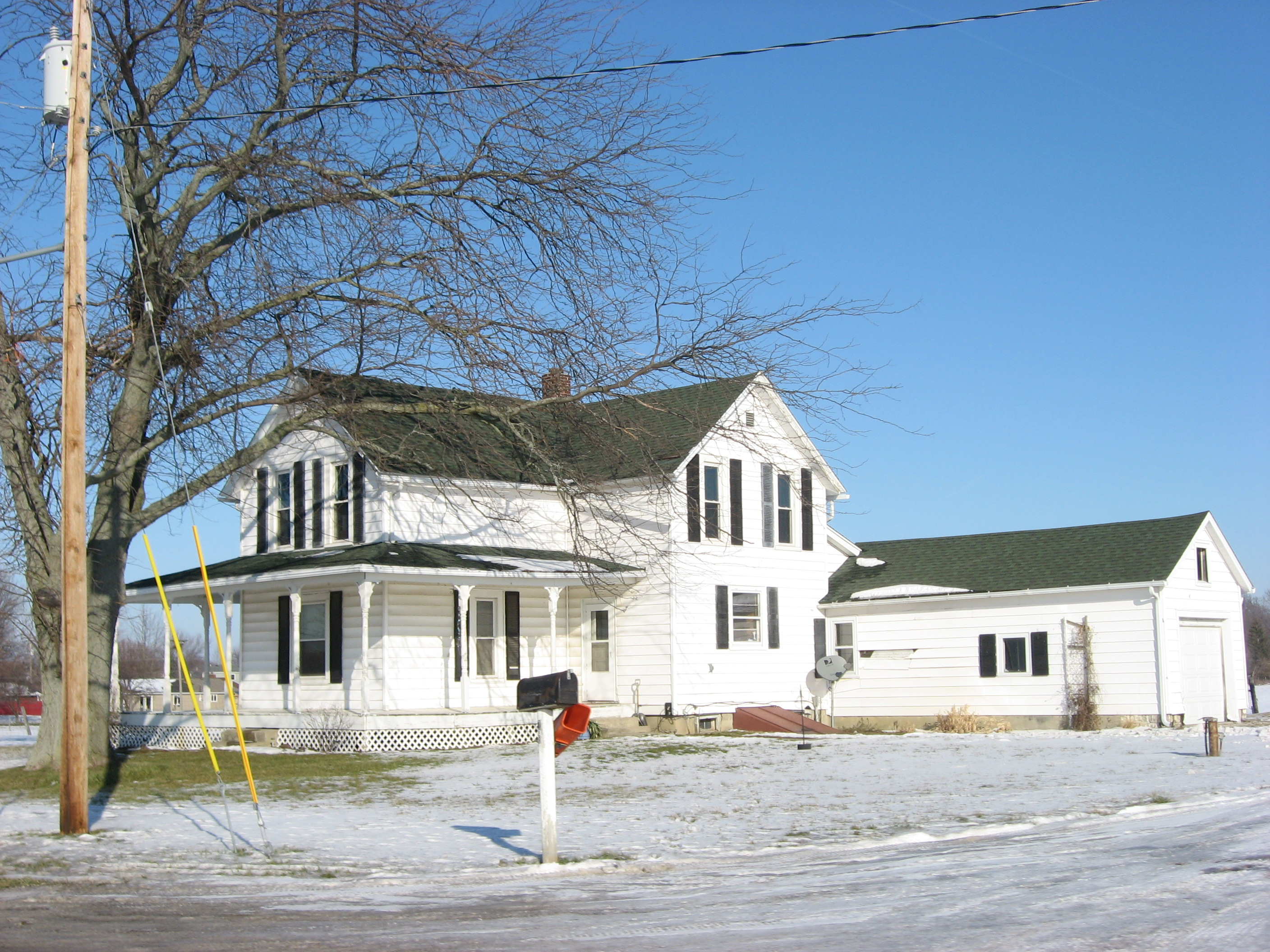 Front and southern side of the Charles Lehmback Farmstead, located at 5131 County Road 15 southeast of Garrett in Keyser Township, DeKalb County, Indiana, United States. Built in 1911, it is listed on the National Register of Historic Places.